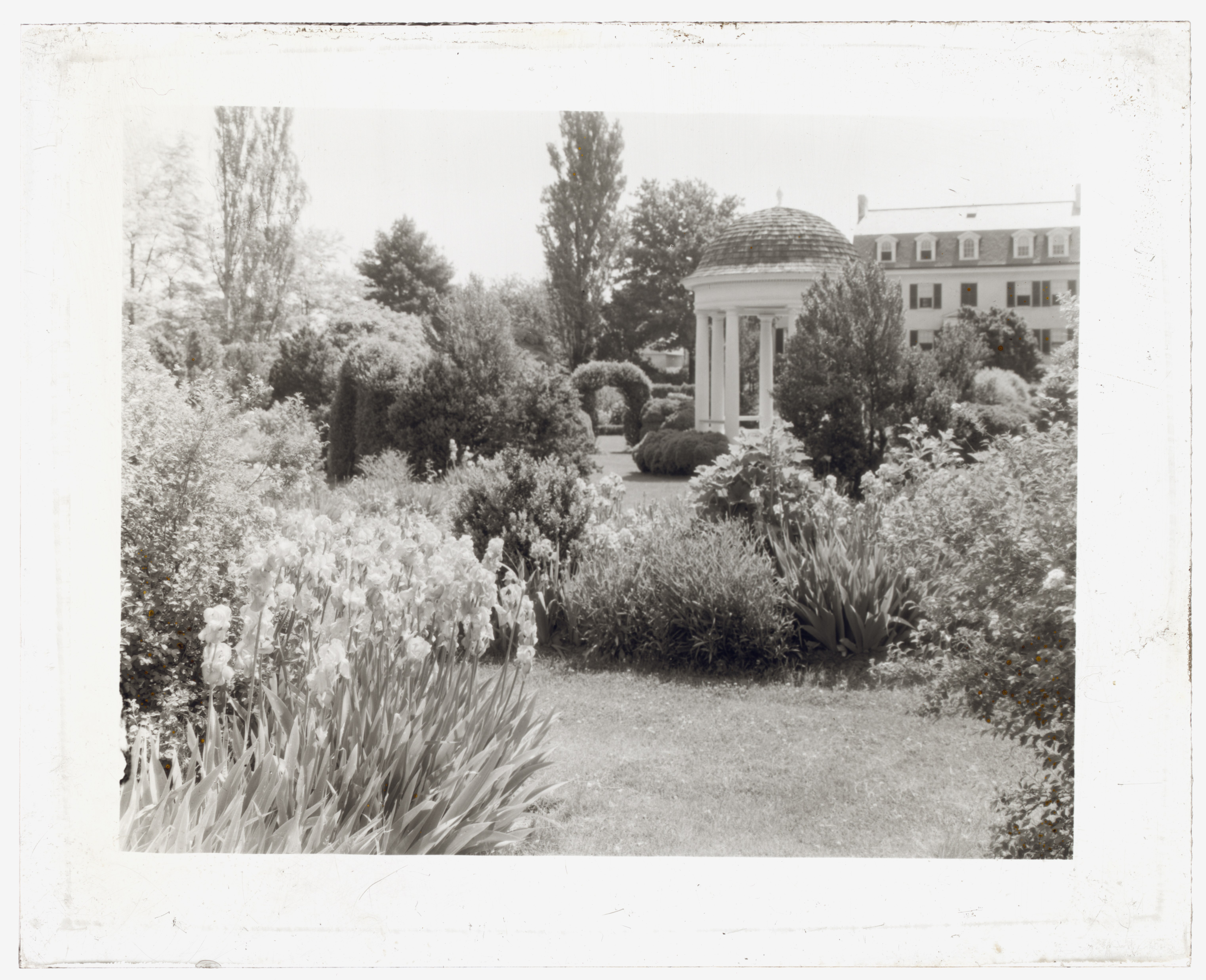 Title: "Belvoir". Classical Greek-style temple within the grounds of Belvoir House, home of Mr Fairfax Harrison, State Route 709, The Plains, Fauquier County, Virginia. Fringe tree and porch. Abstract/medium: 1 photograph : glass lantern slide, b&w ; 3.25 x 4 in.